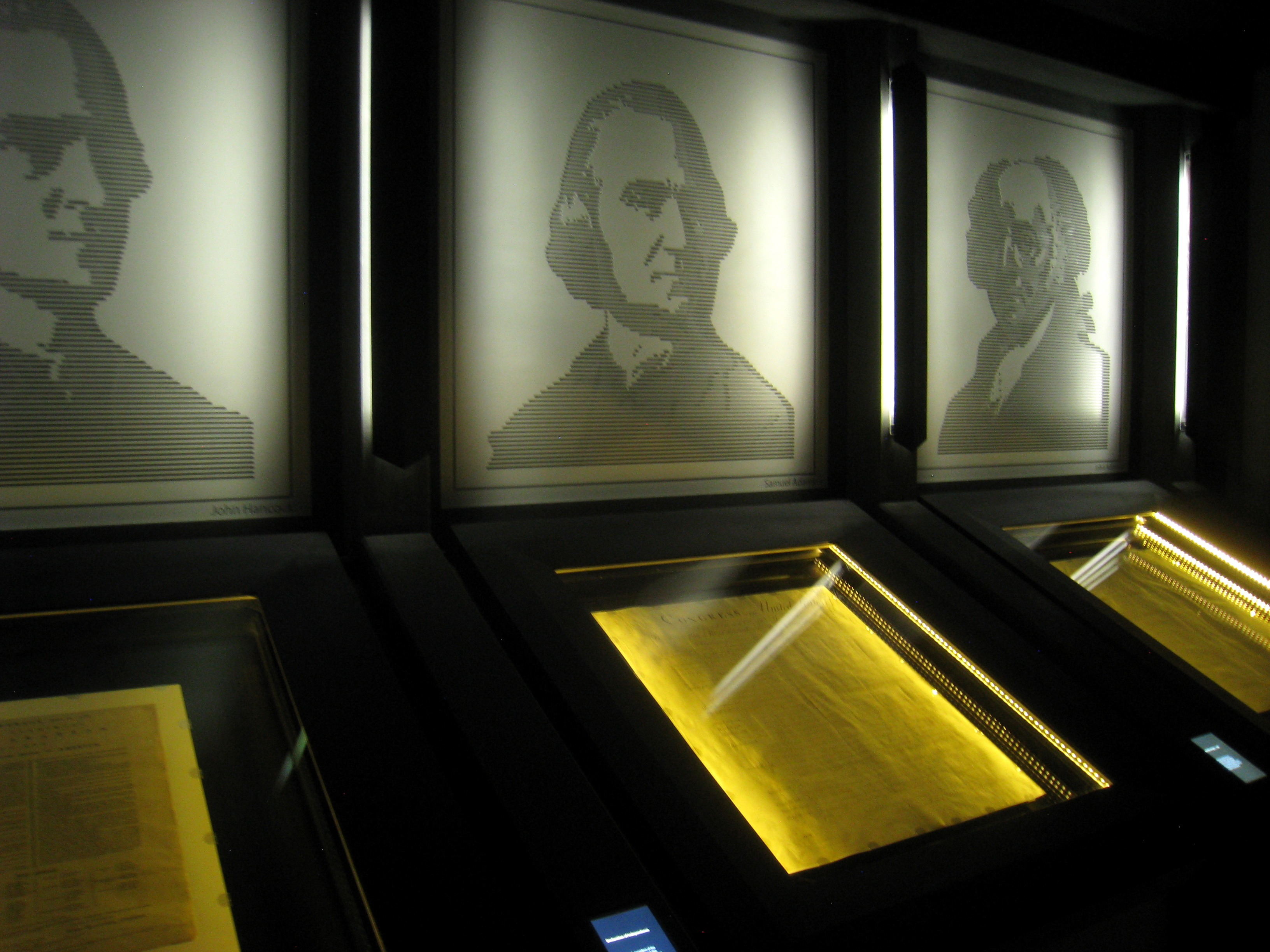 Interior view - Commonwealth Museum, in the Massachusetts Archives, Boston, Massachusetts, USA.